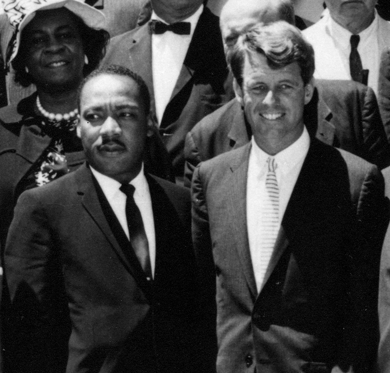 Attorney General Kennedy and Rev. Dr. Martin Luther King, Jr., 22 June 1963, Washington, D.C.